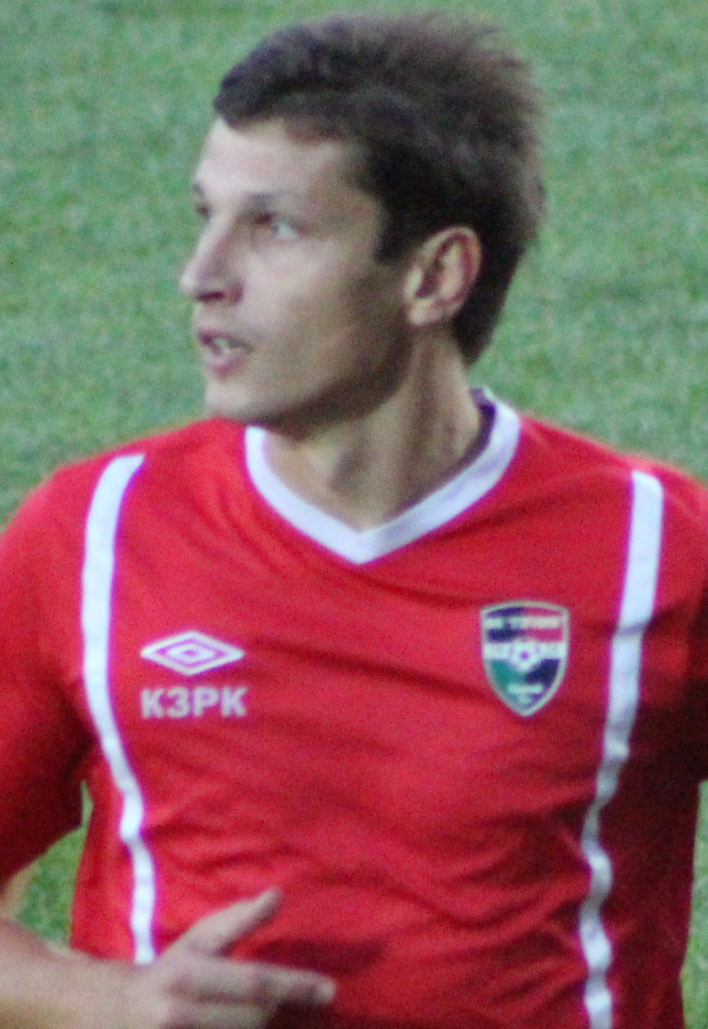 Ihor Tymchenko